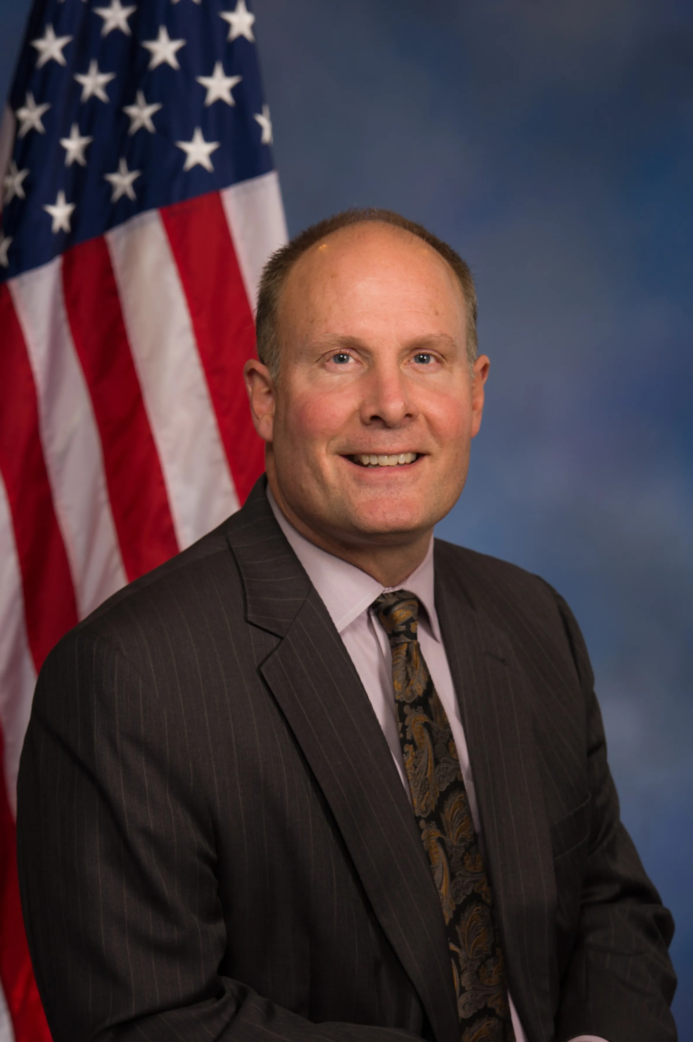 Official Congressional photo of Rep John Moolenaar